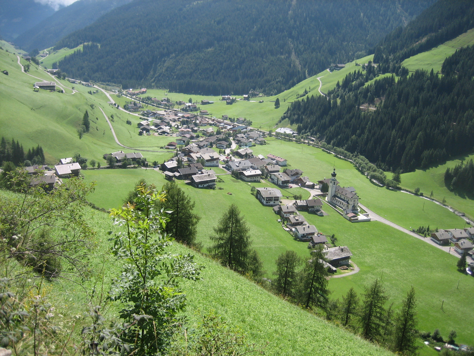 Nucleus of the municipality of Innervillgraten in East Tyrol, Austria. View towards south-east.